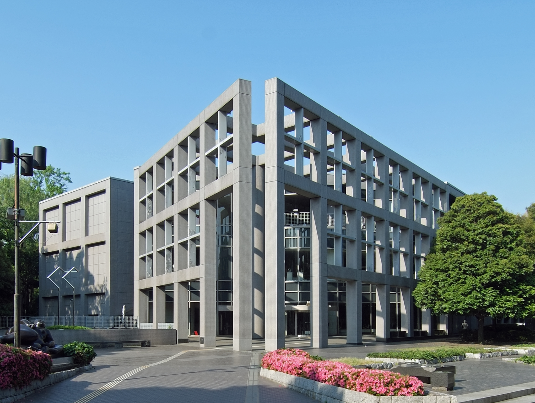 Museum of Modern Art, Saitama, Urawa-ku Saitama Japan, designed by Kisho Kurokawa in 1982.